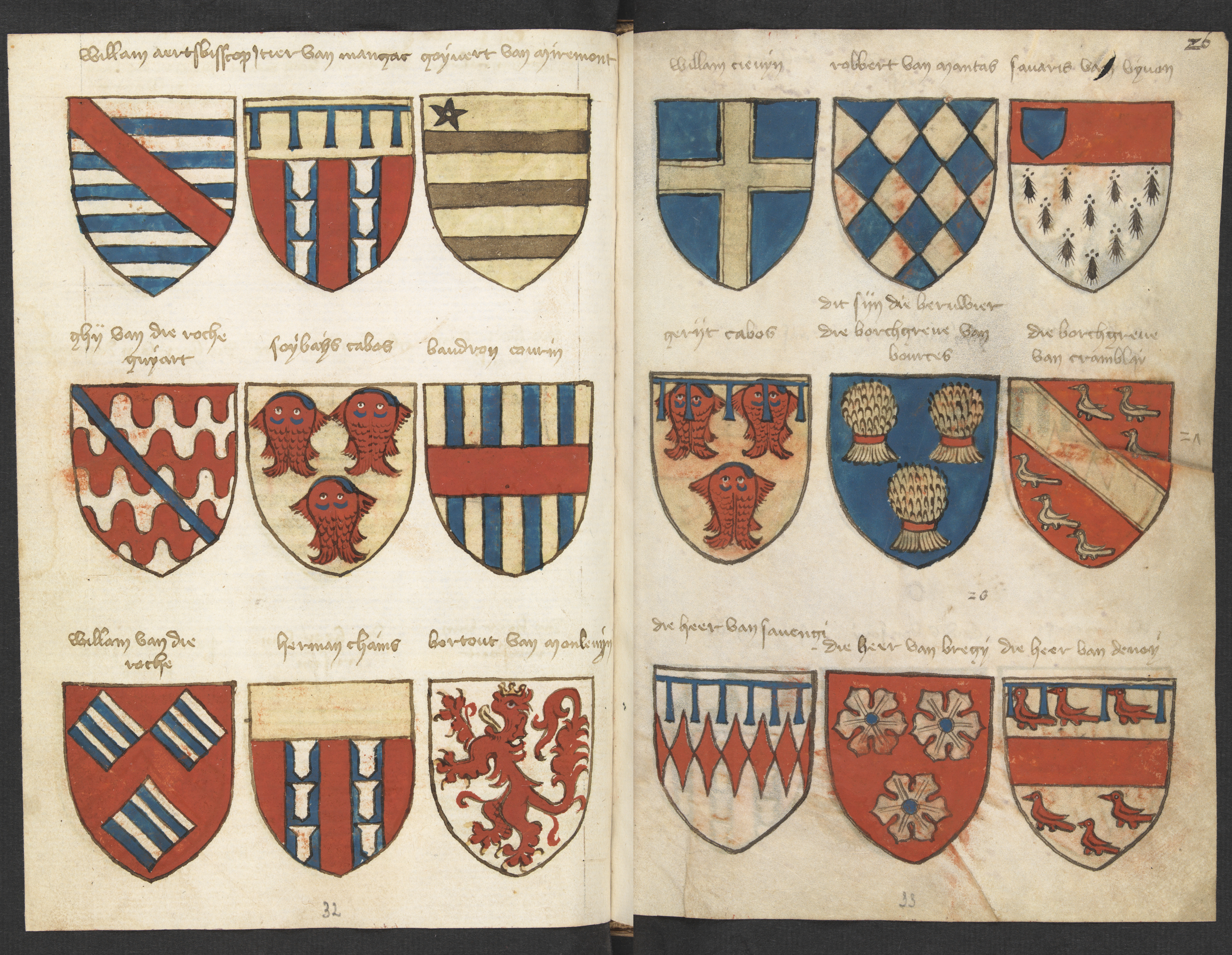 Lefthand side folio 025v; righthand side folio 026r from the Beyeren armorial / Wapenboek Beyeren